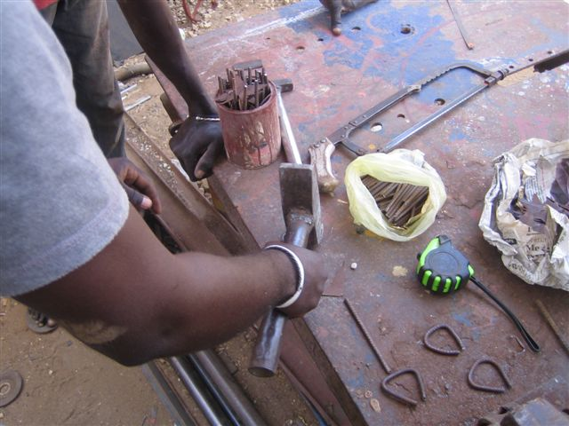 Senegalese artist Henri Sagna in Dakar